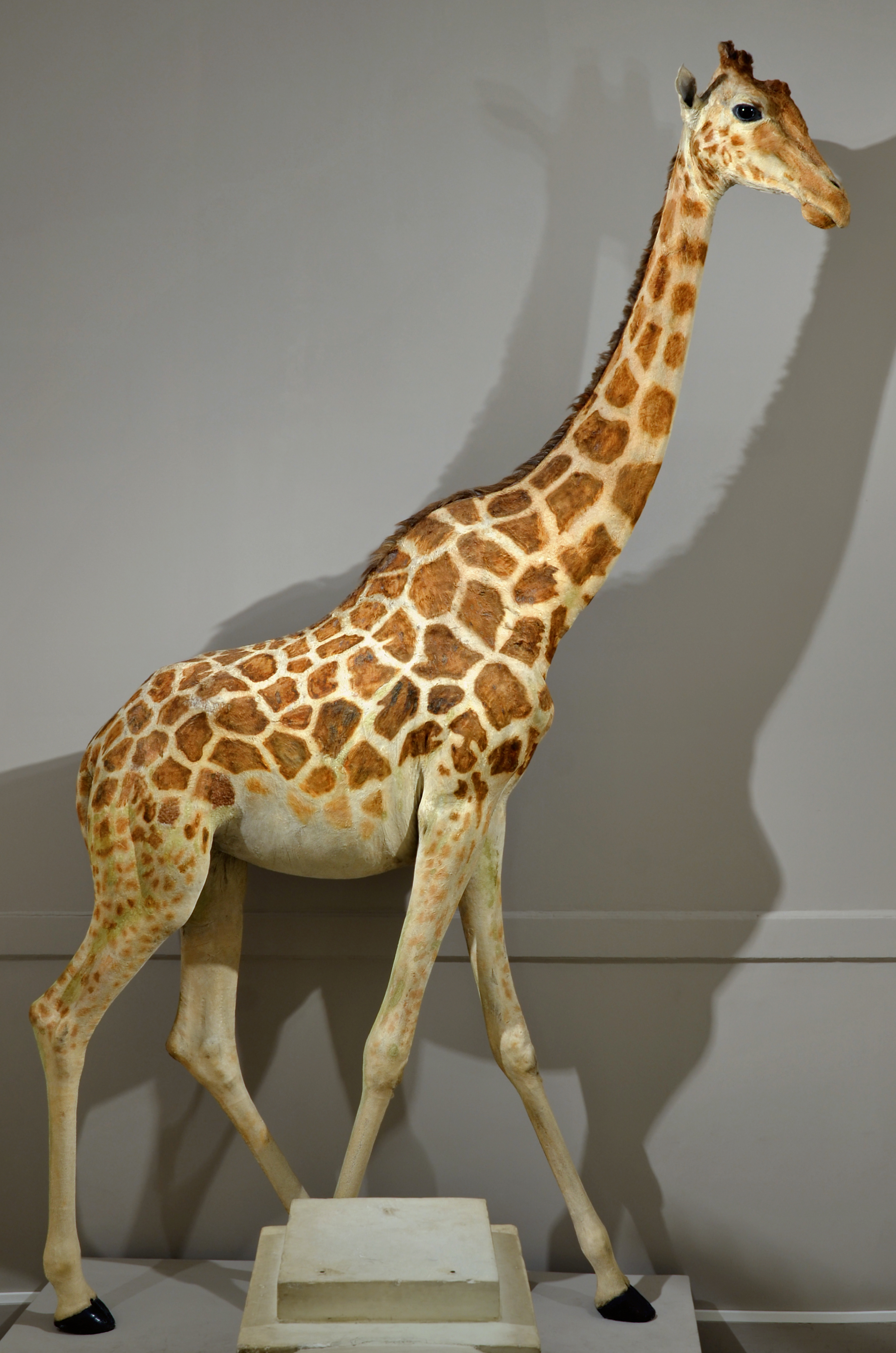 Stuffed giraffe also known as Zarafa, given by Muhammad Ali of Egypt to Charles X of France. Museum of Natural History of La Rochelle, France.